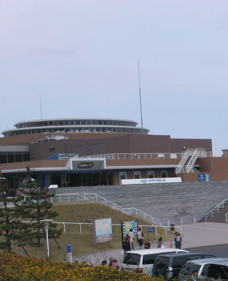 Aqua World Ibaraki Prefectural Oarai Aquarium in Oarai City, Ibaraki Prefecture, Japan